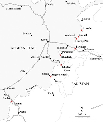 Afghanistan Pakistan Border Crossings Marked in Red